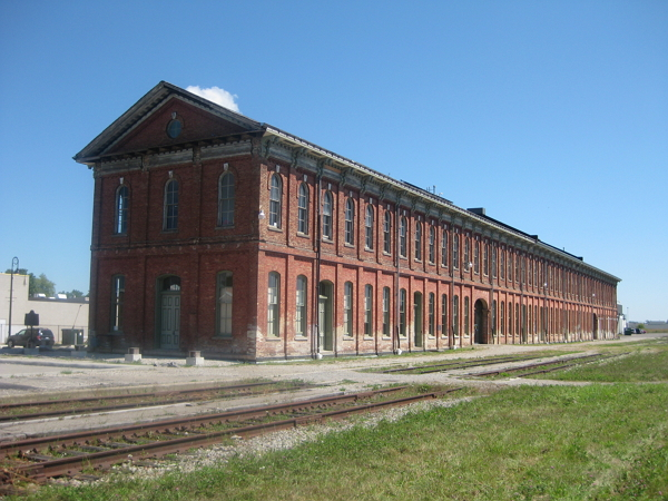 This is the restored Canada Southern Railway Station in St. Thomas, Ontario, Canada, taken August 2013. The angle is the southwest corner of the building. The building, built 1873, is now owned by the North America Railway Hall of Fame.